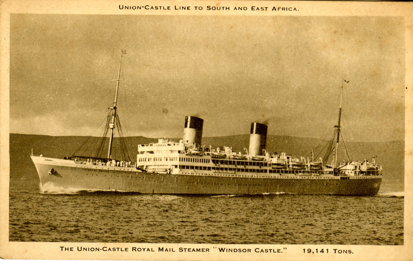 Old postcards of British ships